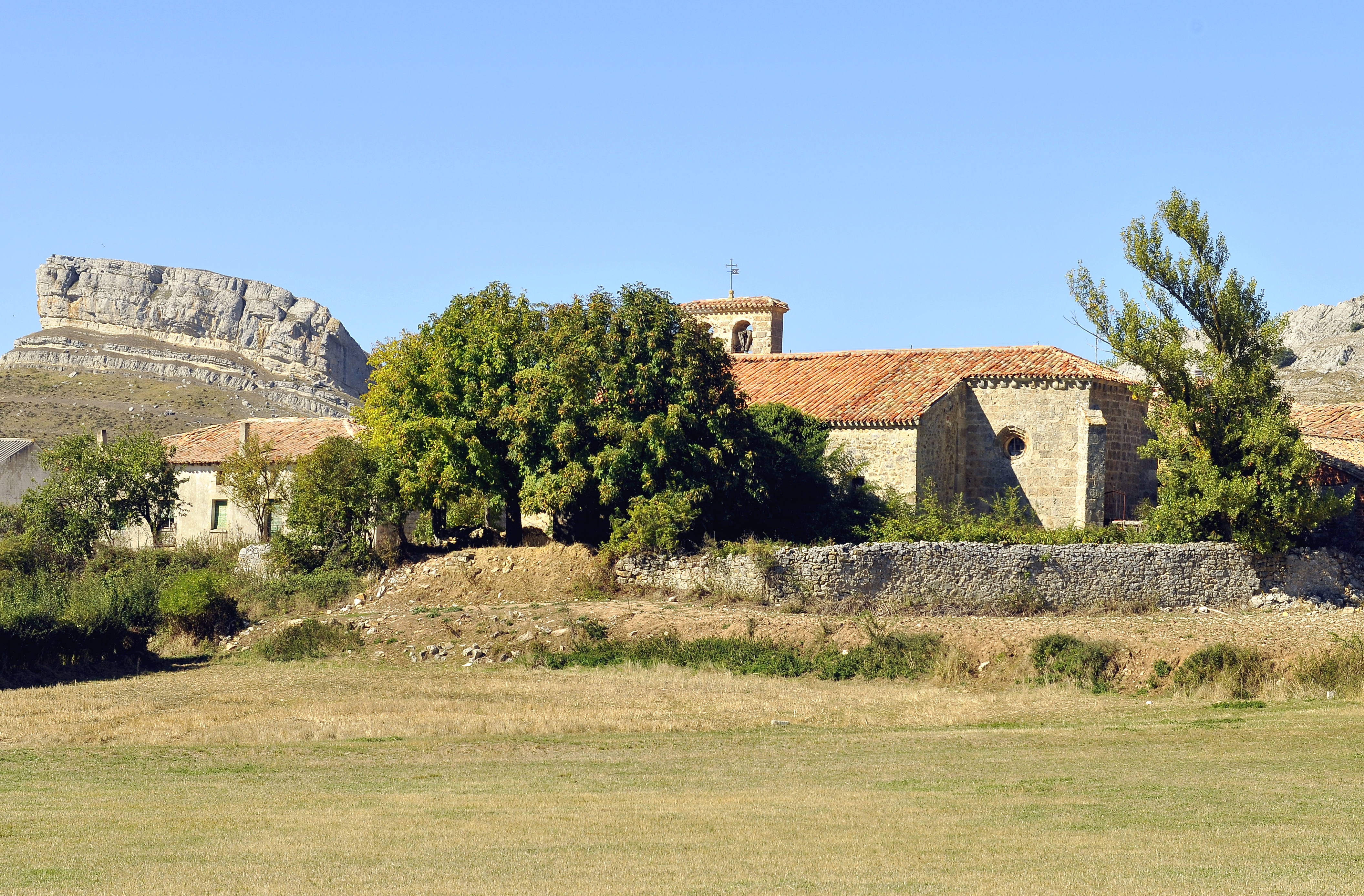 The village and its surroundings. Ordejón de Arriba, Humada, Burgos, Castile and León, Spain